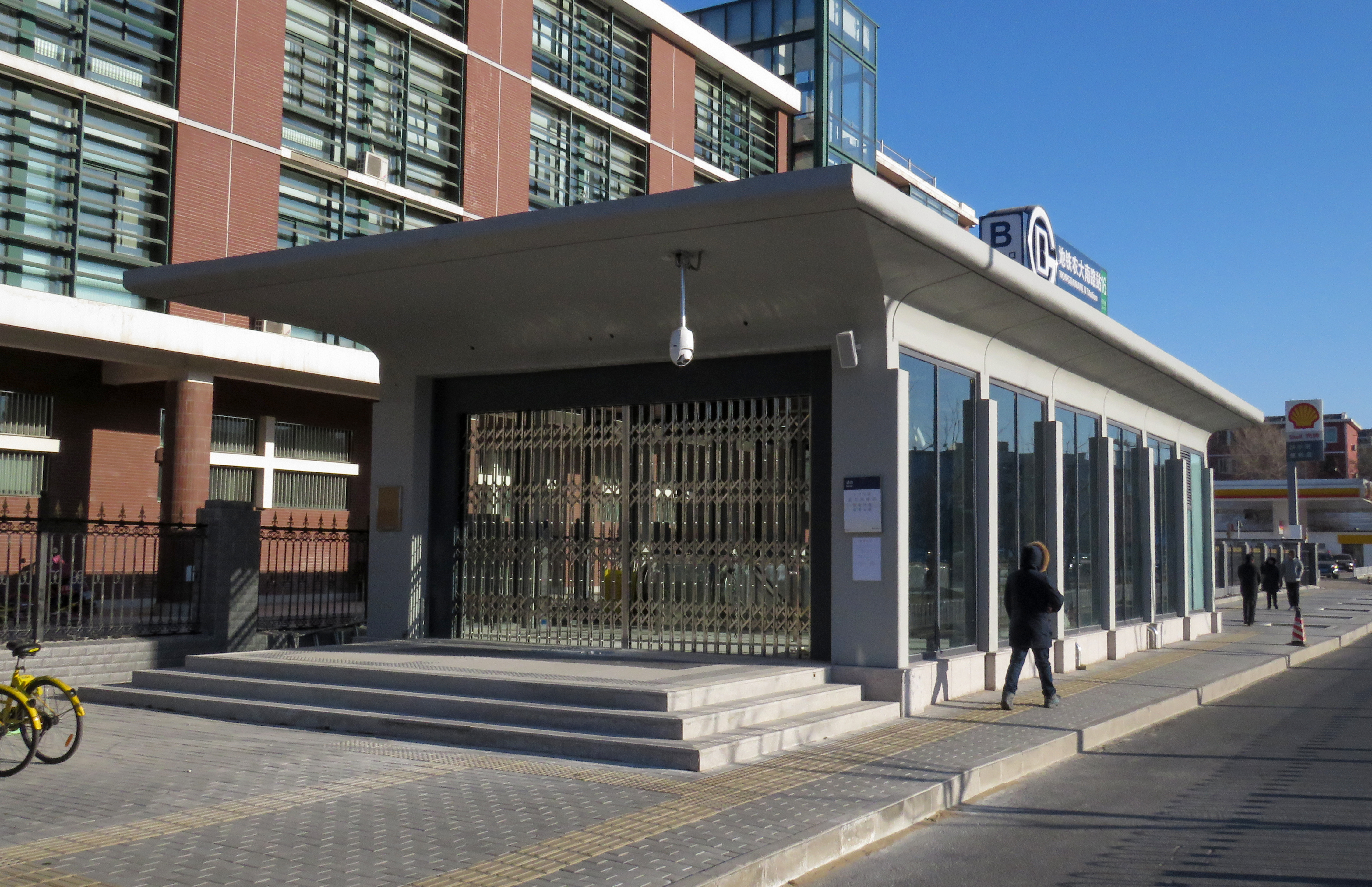 To be opened in 15 days or so.